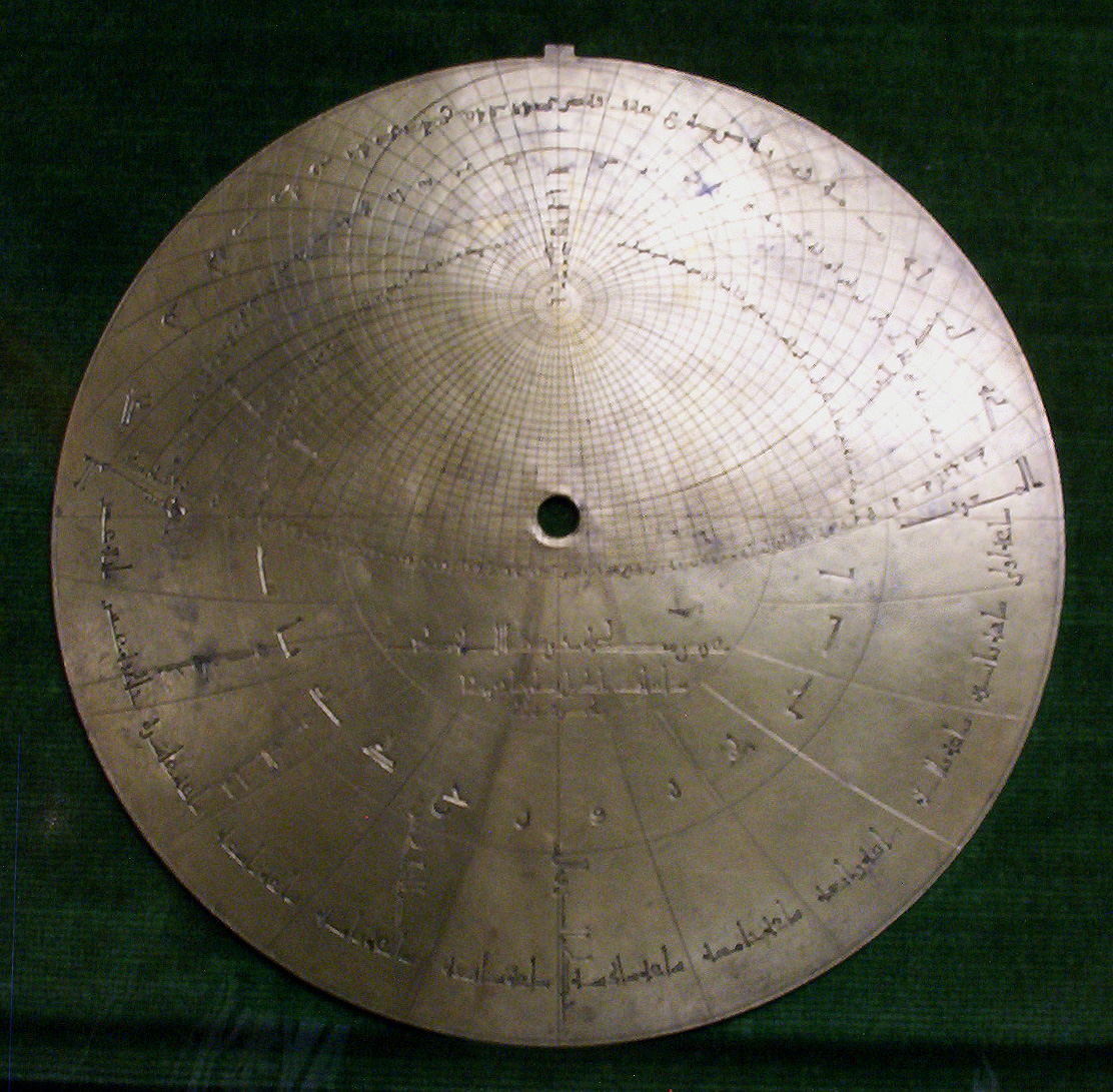 One of the plates of a planispheric astrolabe from Al-Andalus (Islamic Iberia).